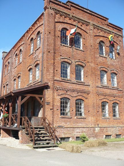 The Mill of Saugos, Šilutė district, Lithuania